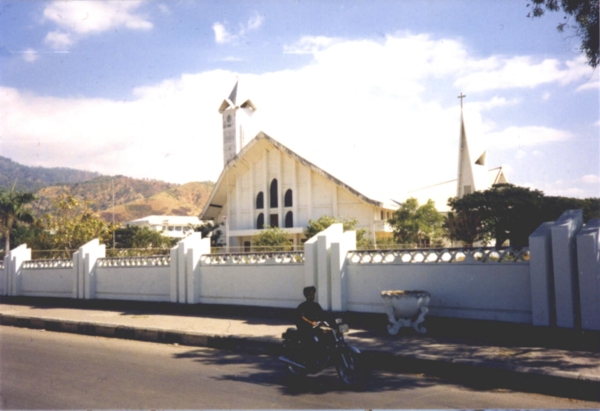 Cathedral of Dili in Vila Verde, 2002